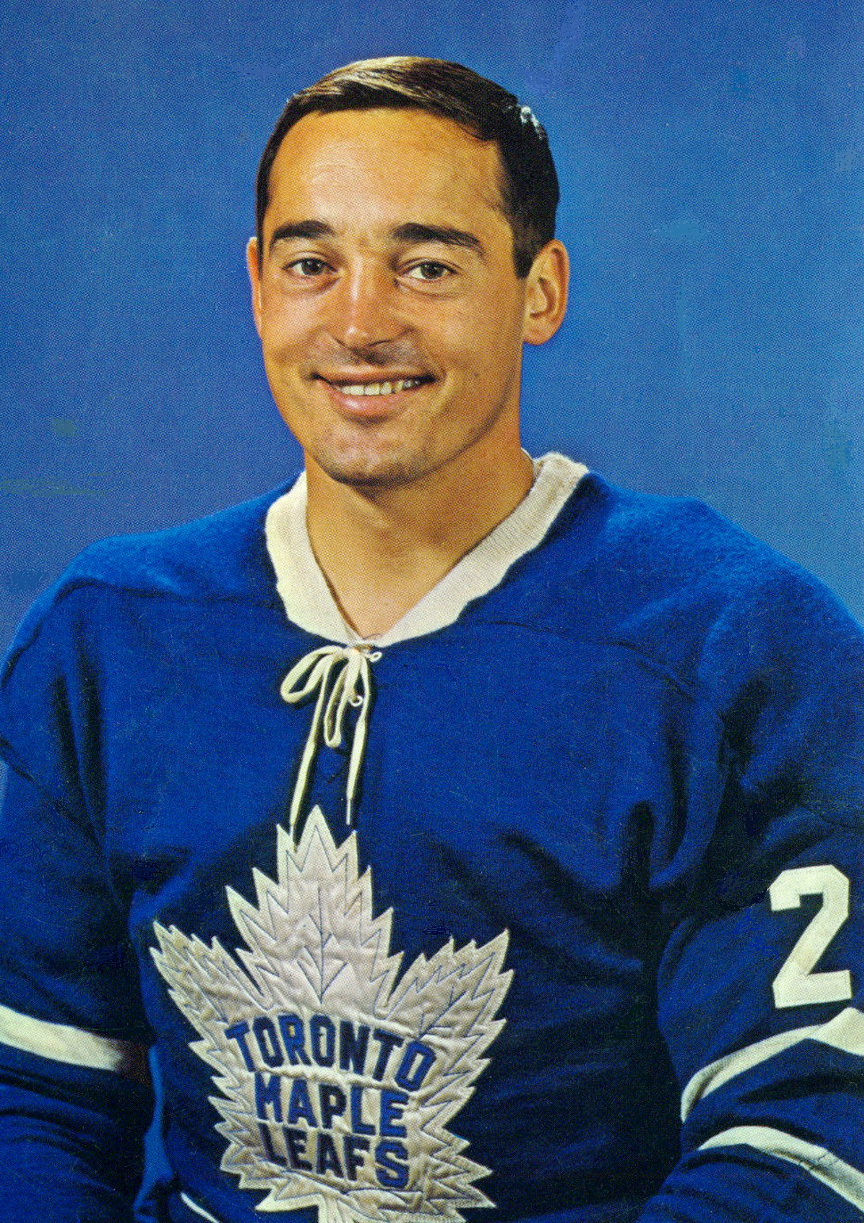 Trading card photo of Frank Mahovlich as a member of the Toronto Maple Leafs. According to the seller, Ralston-Purina also printed trading cards on their pet food bags during the same 1963 to 1965 time period they were printing hockey trading cards on the backs of their Chex cereal boxes in the US and Canada. While the cereal box ones were on sturdier cardboard, the paper ones from the pet food bags had no such backing. Both styles of card were blank on the back, as the collector simply cut them from the box or bag. auction "According to the VHC catalogue , these paper issued photos (as opposed to regular cardboard issue) were put out by the Ralston Purina company on bags of pet food and these were produced in very low numbers and are very tough to find in any condition." These cards were also printed on the backs of Chex cereal boxes in the US and Canada from 1963 to 1965. Those collecting the cards cut them from the back of the boxes. Mahovlich's cereal box card front.